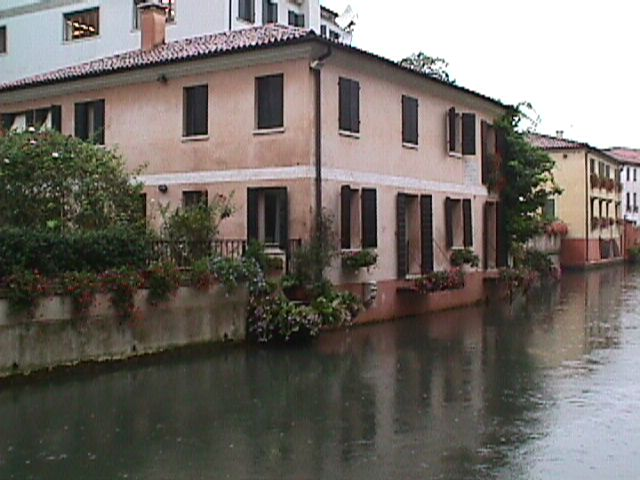 Home of the Italian writer and journalist Giovanni Comisso. Picture by: Giovanni Dall'Orto, Sept. 20 1999.